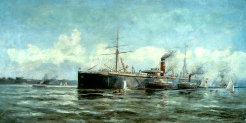 Frederick Elliott's painting The Departure of the SS Cornwall. This painting depicts the departure from Brisbane of the first Queensland contingent for the South African War, on Wednesday 1 November 1899. SS Cornwall was a Federal Steam Navigation Co steamship that became a troopship to take the 260 men and 300 horses that the colony of Queensland sent to fight the Boers. In preparation she had been cleaned, painted and outfitted with a new galley and a bakehouse. The force was divided up into two companies, and each company occupied one side of the ship.